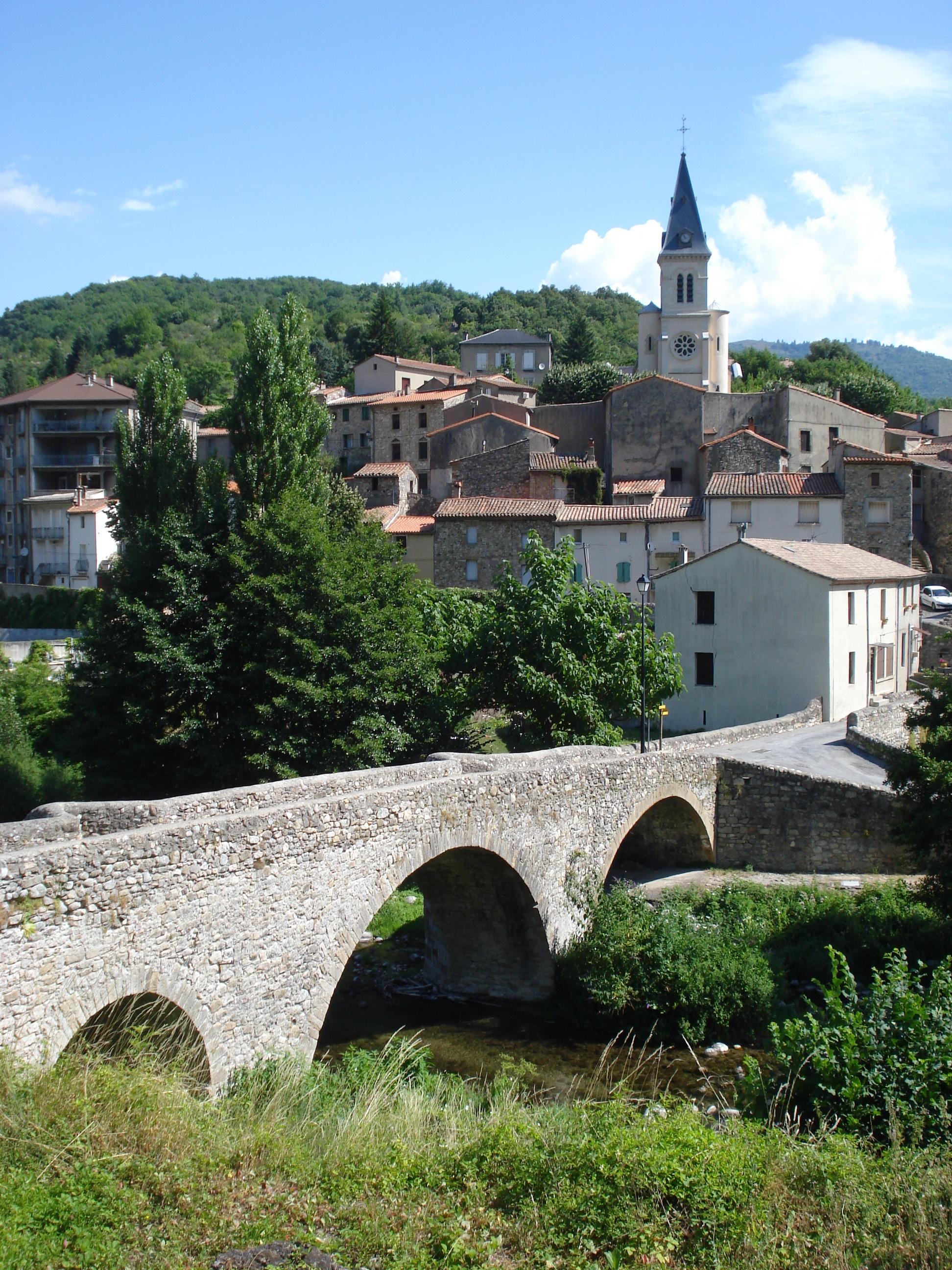 Arre village (Gard, Fr), Arre river, bridge and church.